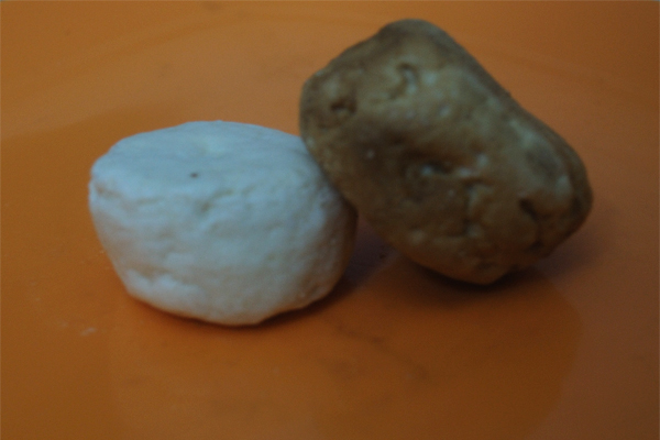 BandeL Cheese